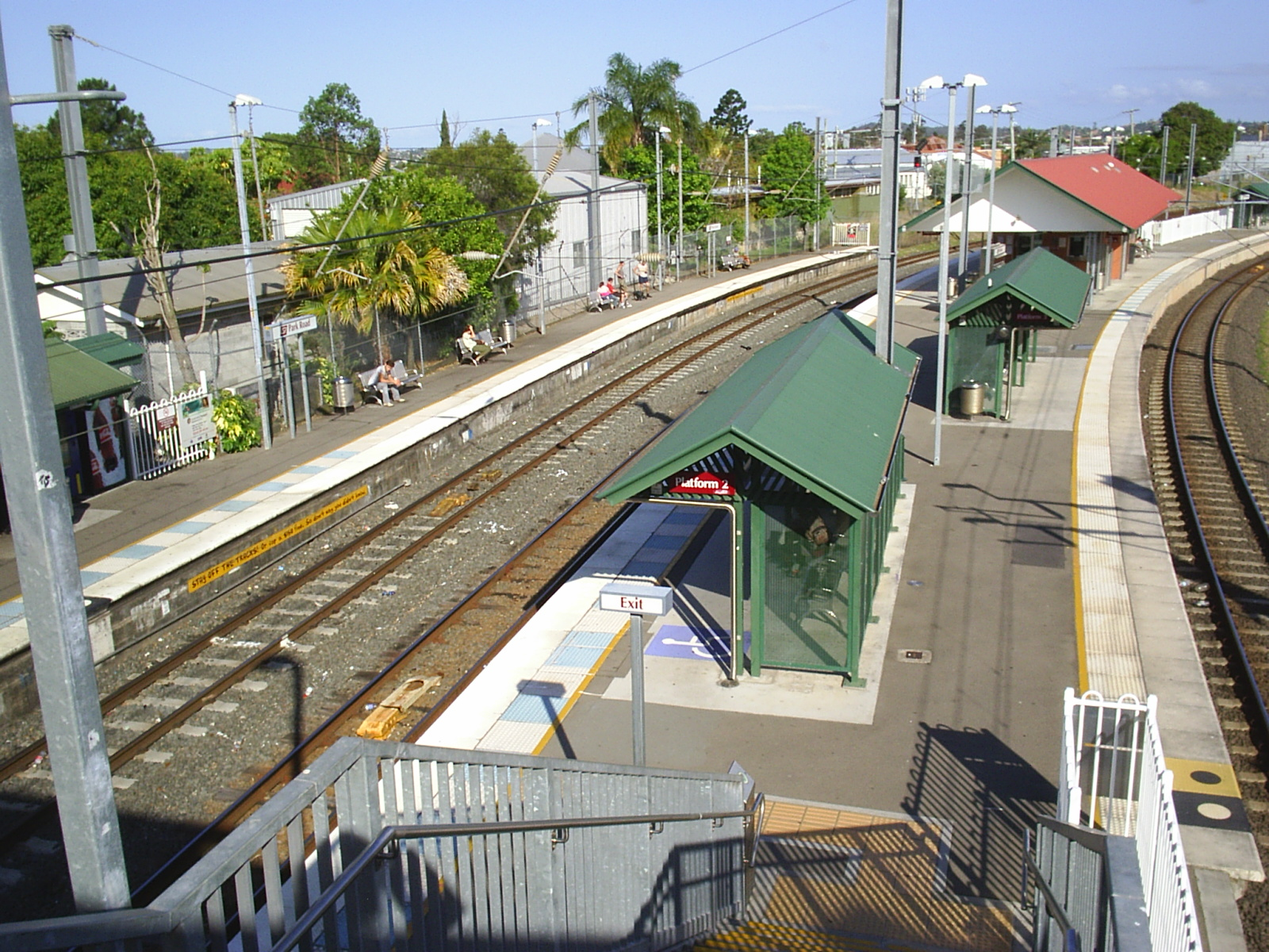 QR Park Road Station. looking towards Beenleigh & platform's 1,2 & 3. Taken by Qld matt 14:47, 22 December 2006 (UTC)